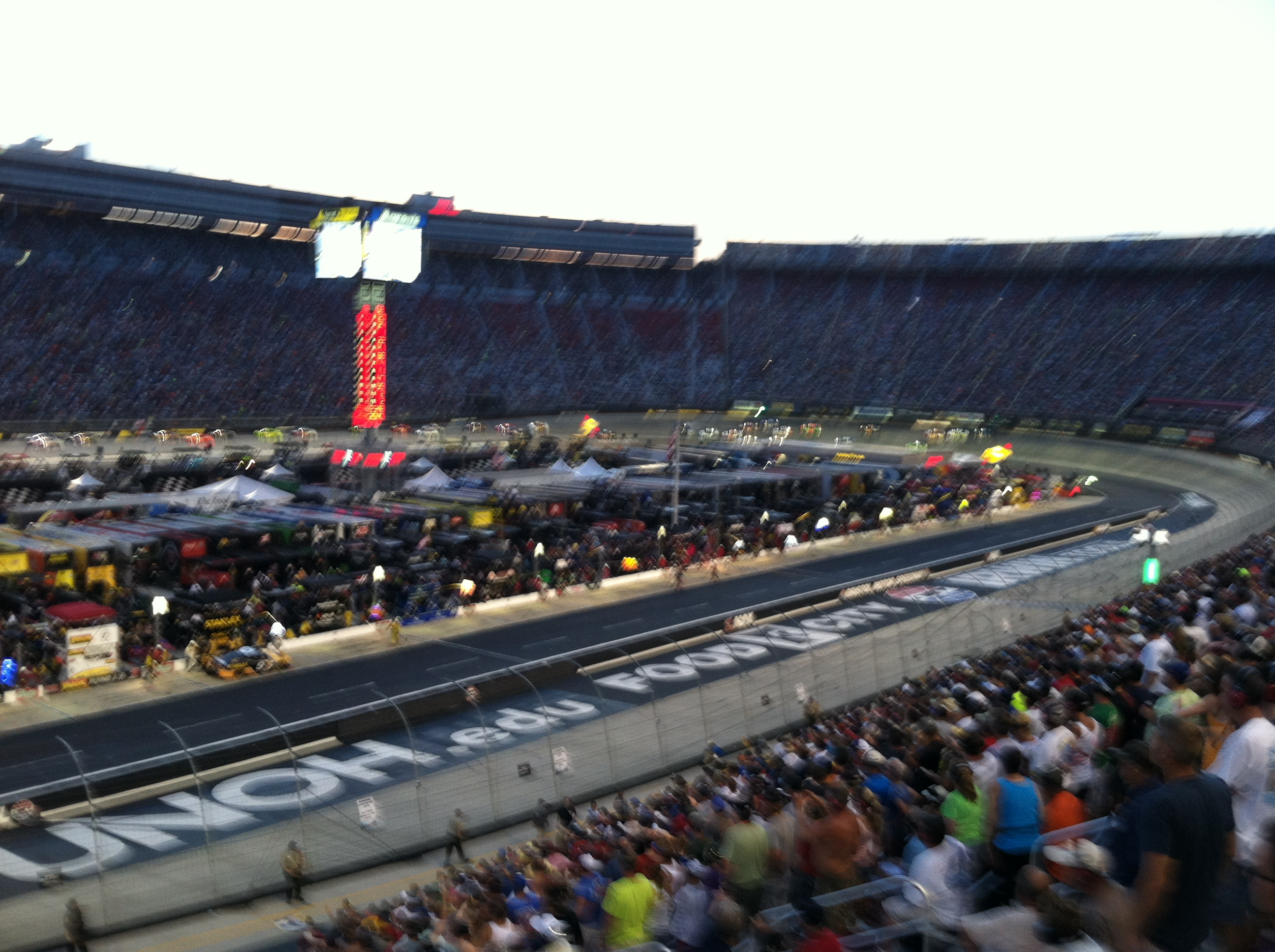 Action at Thunder Valley.